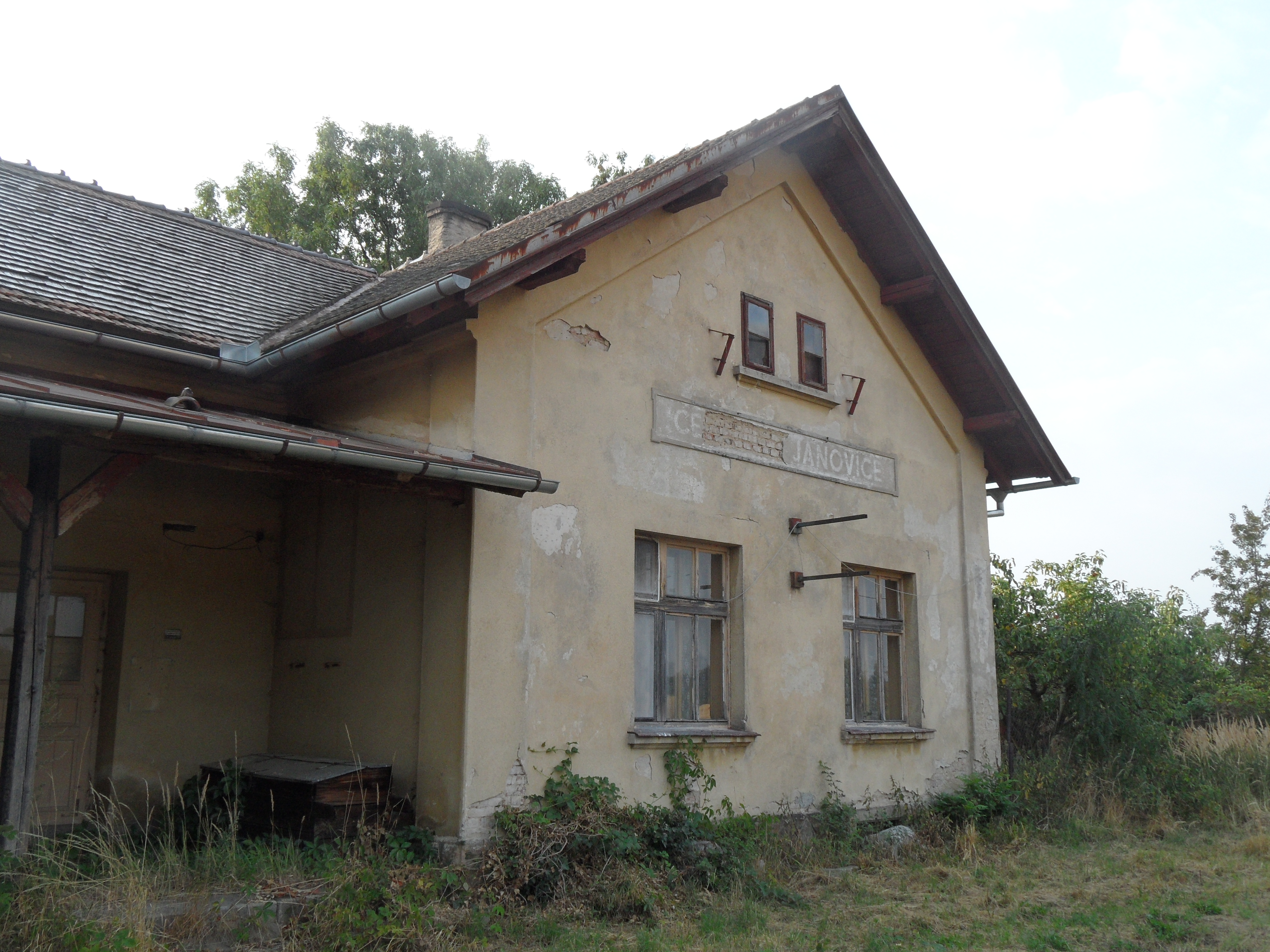 Červené Janovice (Railway Station) A. Building of Former Railway Station (with Residue of Notice "Červené Janovice"), View from North-West (Railway line 235 Kutná Hora – Zruč nad Sázavou). Kutná Hora District, the Czech Republic.